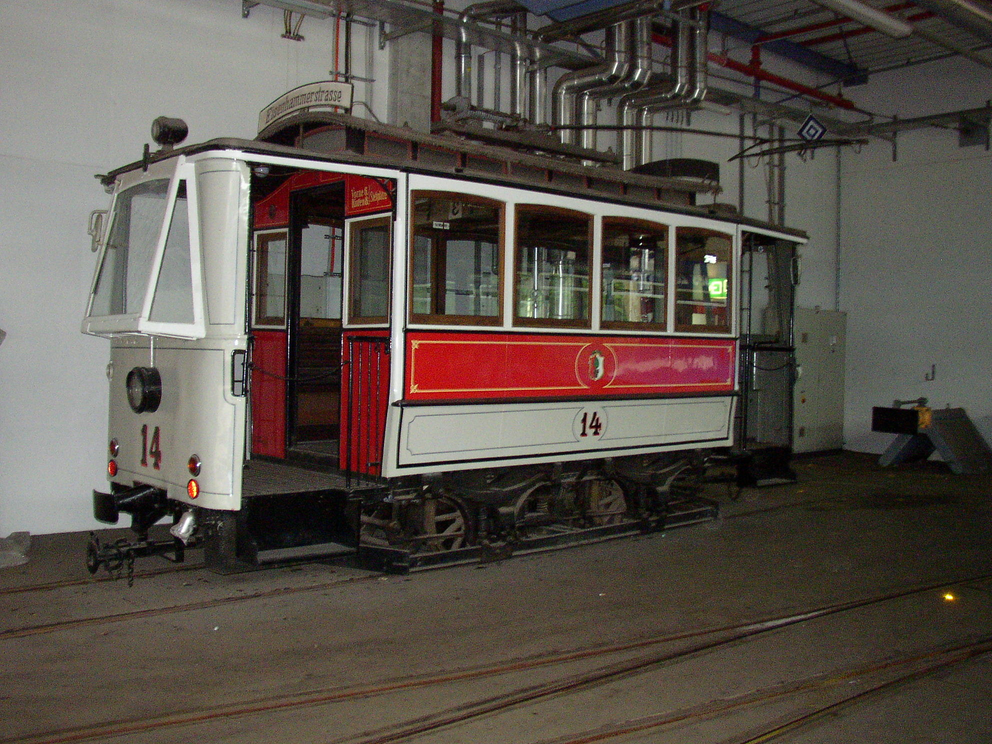 Tram of type series 14 (year of manufacture: 1898) in Augsburg